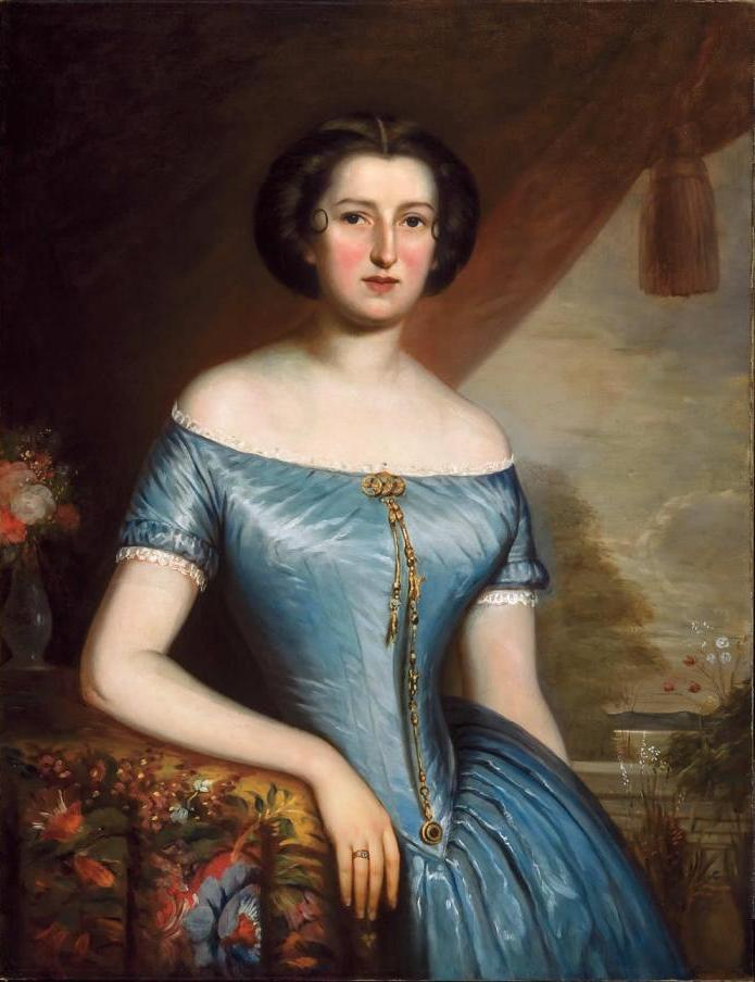 Portrait of Louise-Adèle Taschereau (1822-1849), daughter of Antoine-Charles Taschereau and Adélaïde Fleury de La Gorgendière; first wife of François-Réal Angers. "The portrait might have been done posthumously, and the artist, Théophile Hamel, may have based the painting on a photographic image, a method that he and his contemporaries increasingly turned to at the time." ( source)